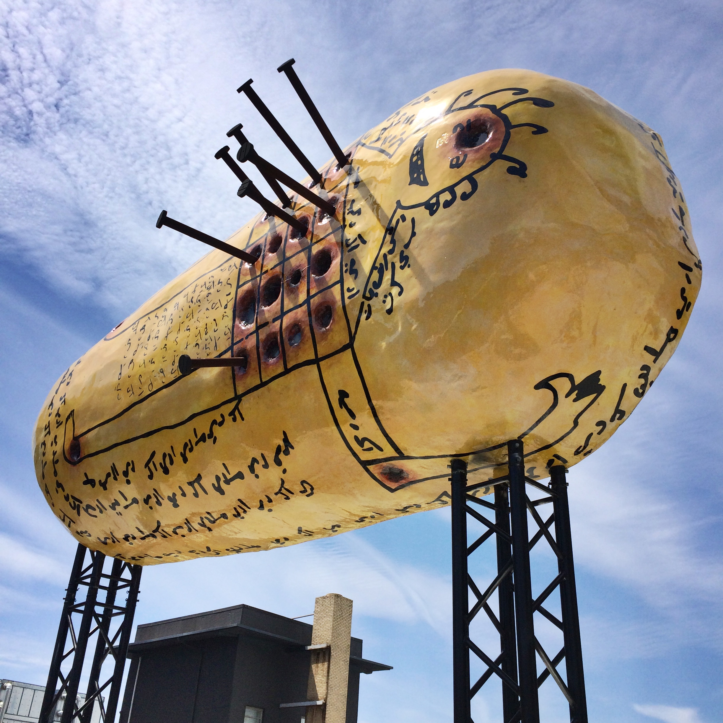 Sculptural installation by artist collective GCC (GCC (Nanu Al-Hamad, Abdullah Al-Mutairi, Aziz Alqatami, Barrak Alzaid, Khalid al Gharaballi, Amal Khalaf, Fatima Al Qadiri, and Monira Al Qadiri) for the 2017 Whitney Biennial